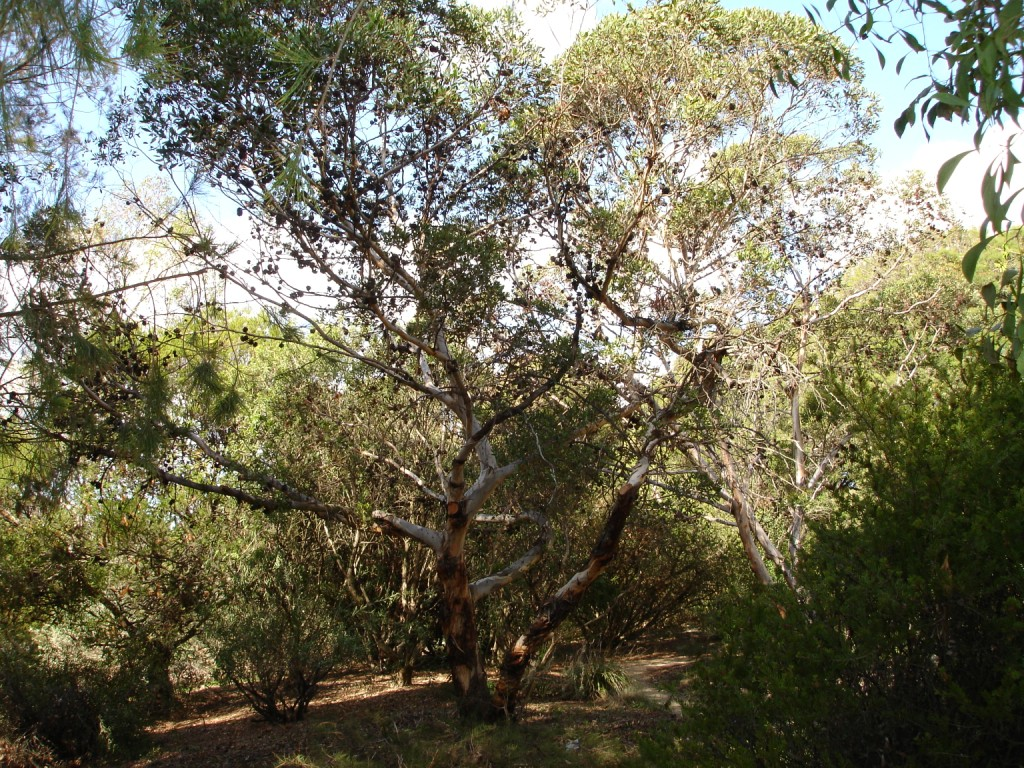 Photographed at Maranoa Gardens, Melbourne, Victoria, Australia HelloMojo 08:02, 6 April 2007 (UTC)